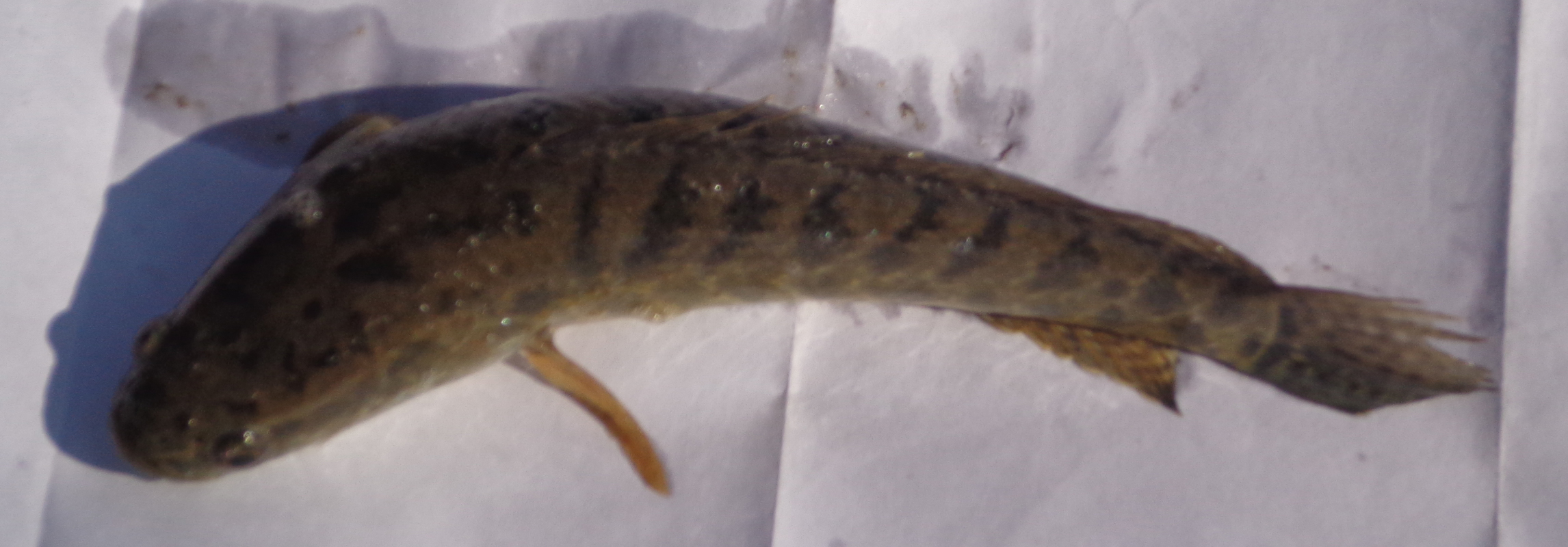 Channa punctata at Mohangonj, Netrokana, Bangladesh.